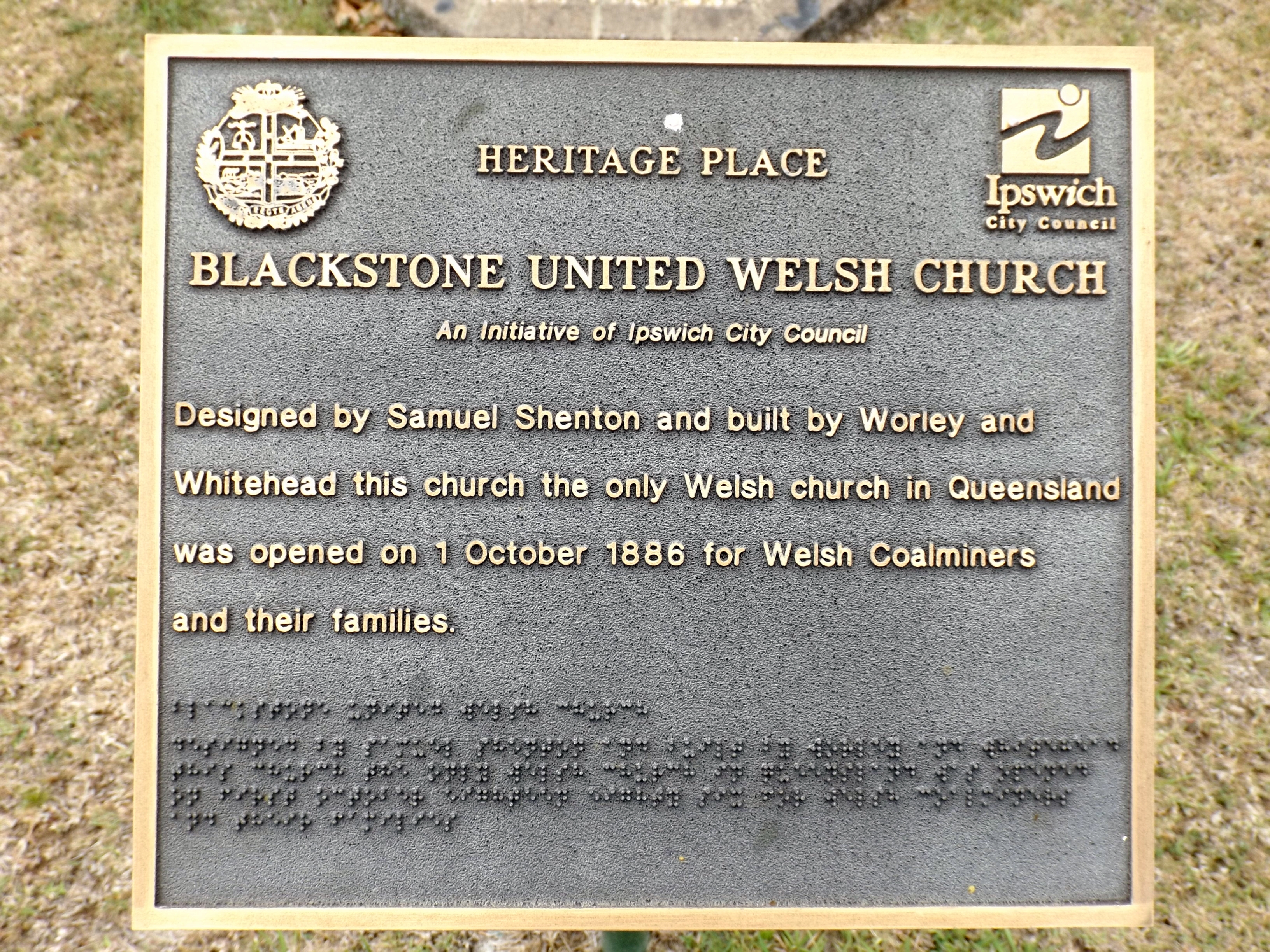 Photo of an Ipswich City Council plaque at the United Welsh Church, Blackstone, Ipswich, Queensland, Australia.